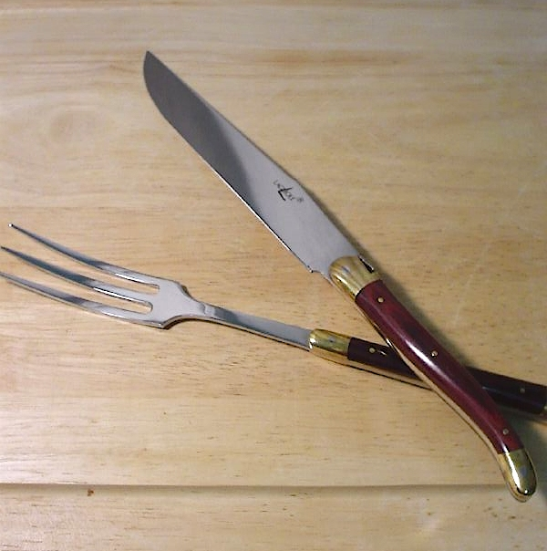 Carving set of the French manufacturer Forge de Laguiole.